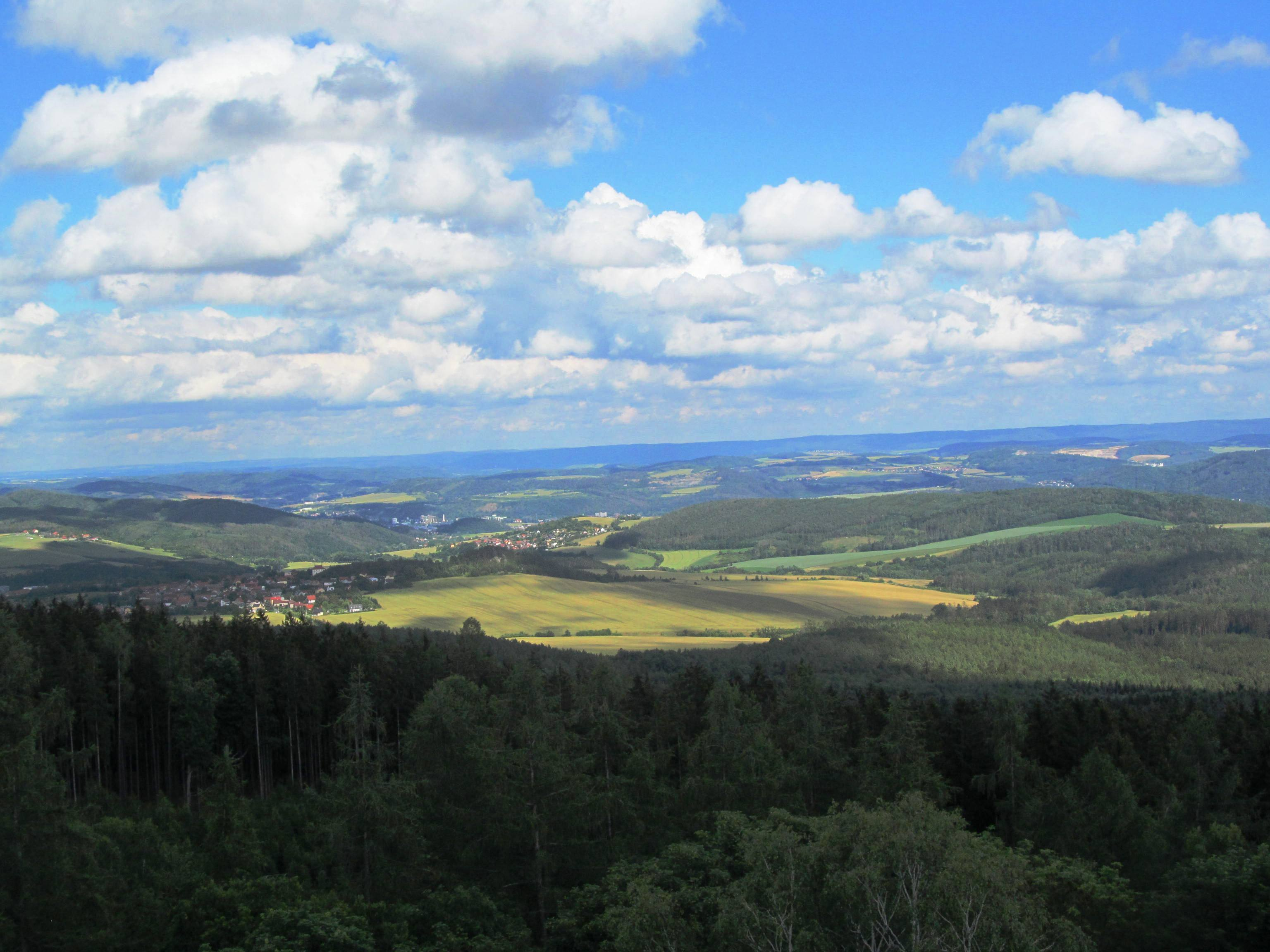 View from observation tower Máminka